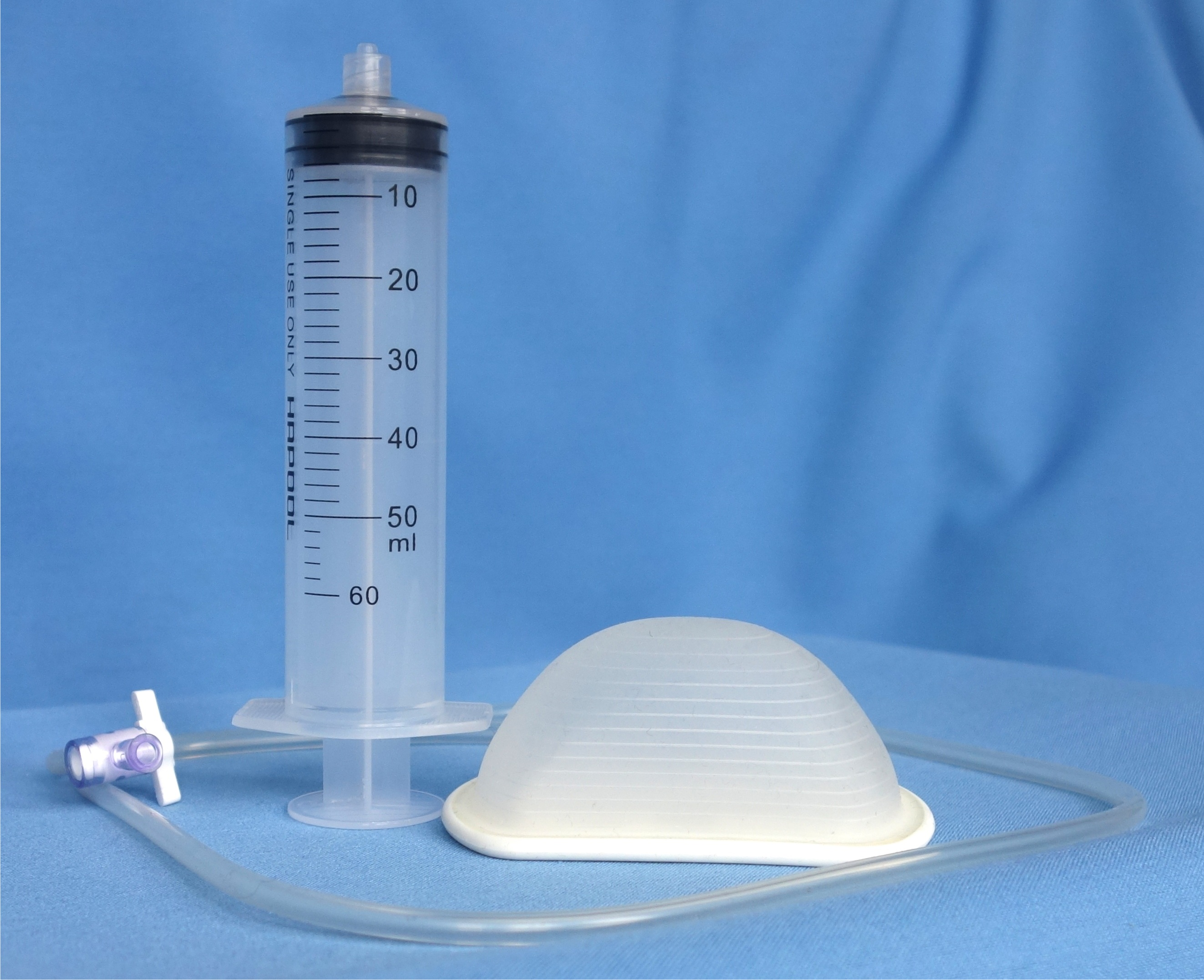 Fetal Pillow device inflated